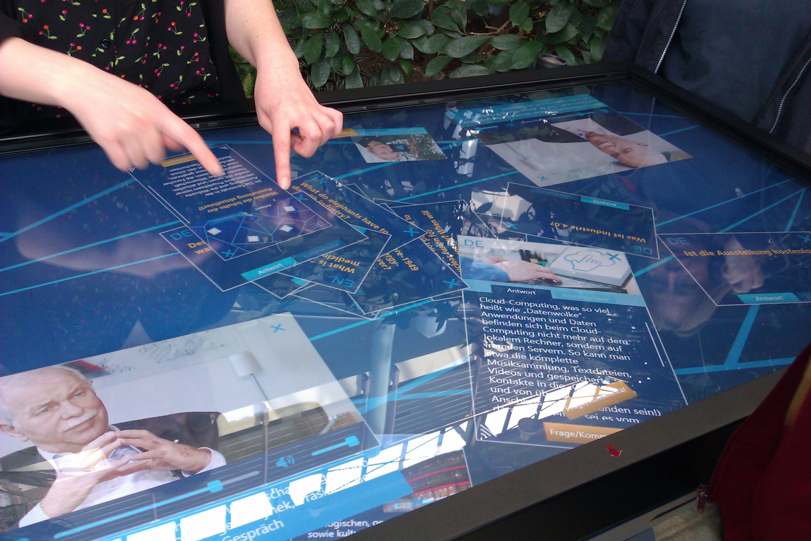 Interactive table at Ideen 2020 exhibition